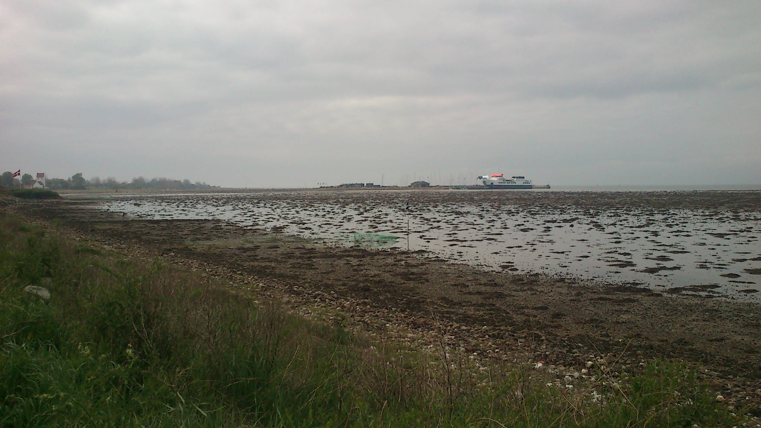 Ebb in the bay of "Flasken" at Endelave island. The area has characteristics similar to the Wadden sea. It is an important resting and feeding ground for many birds